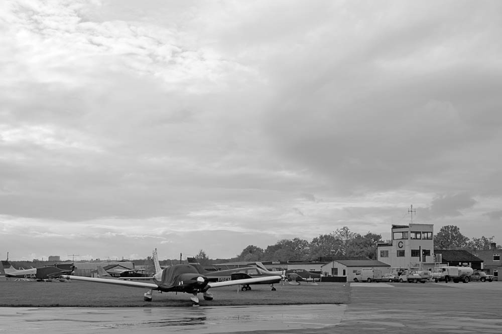 Fairoaks airfield Woking Surrey General aviation and associated business Author: Antony McCallum